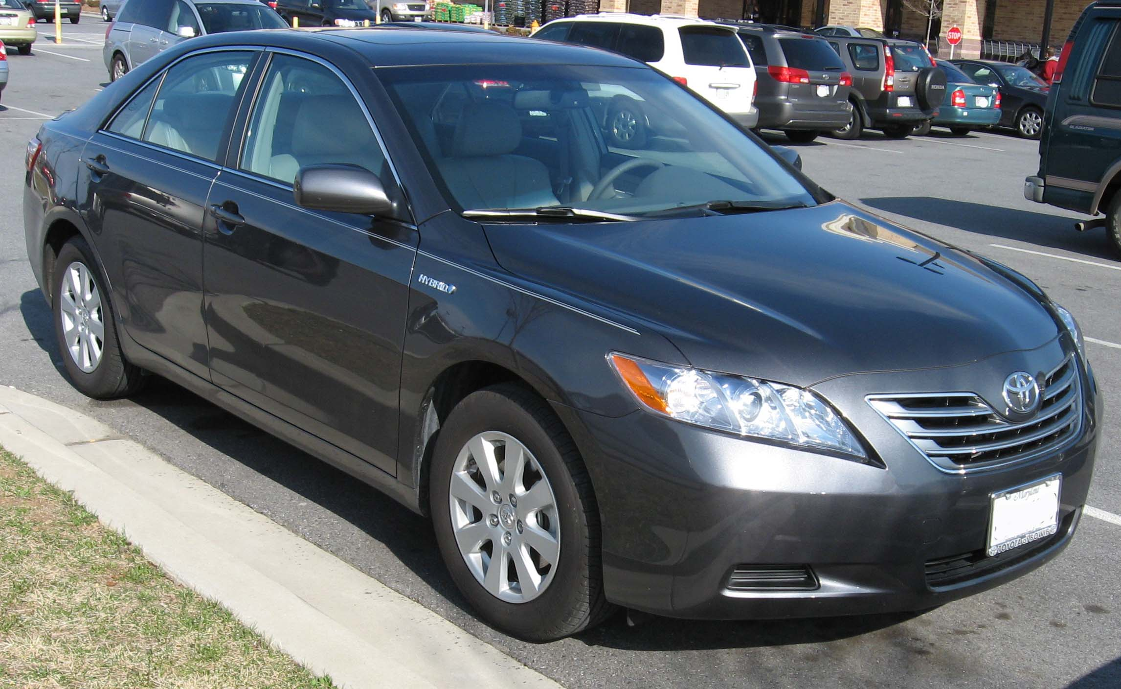 2007 Toyota Camry Hybrid photographed in USA.